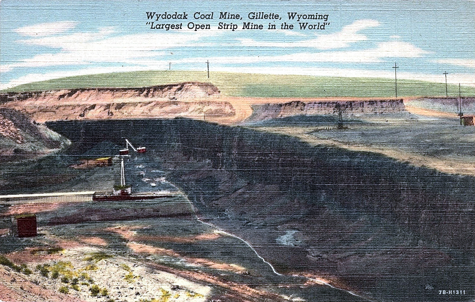 Photo postcard of Wyodak Coal Mine in Campbell County, Wyoming.